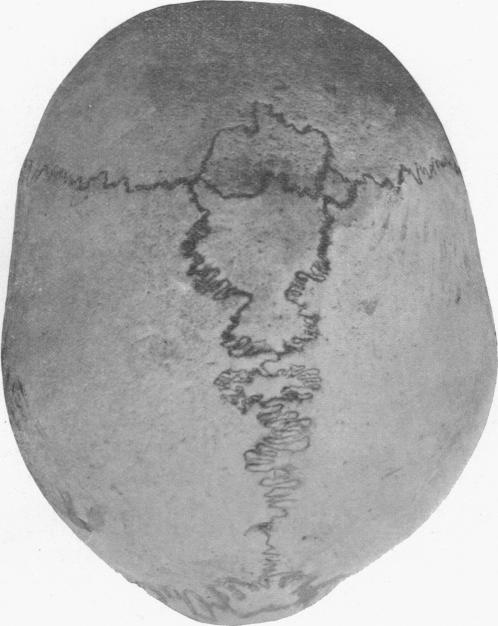 human skull with wormian bones of 21 years old man